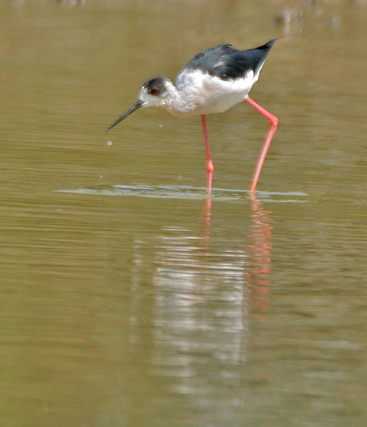 Black-winged Stilt Himantopus himantopus at Keoladeo National Park, Bharatpur, Rajasthan, India.